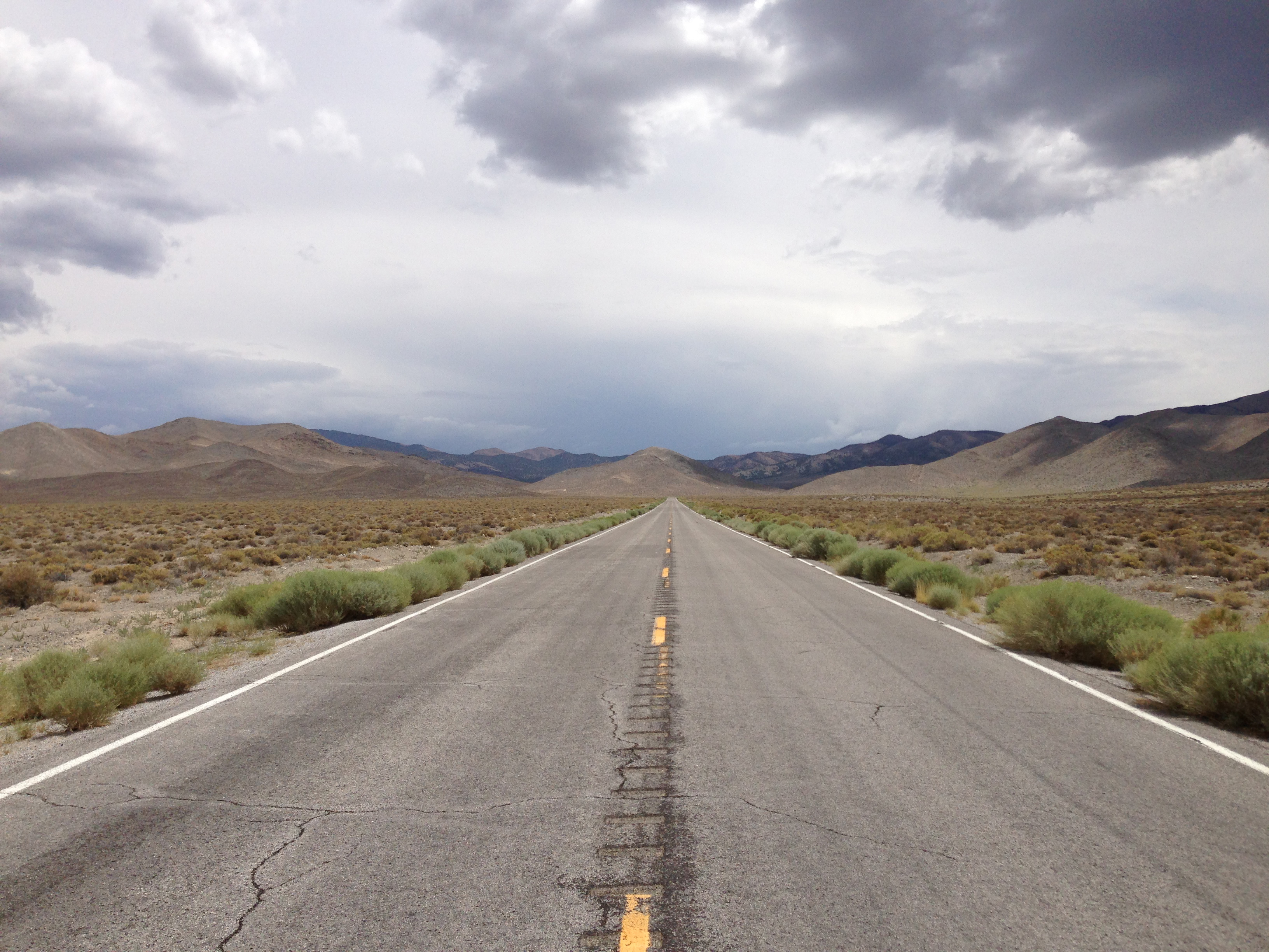 View east along Nevada State Route 844 (Ione Road) about 0.6 miles east of Nevada State Route 361 (Gabbs Valley Road) in Nye County, Nevada